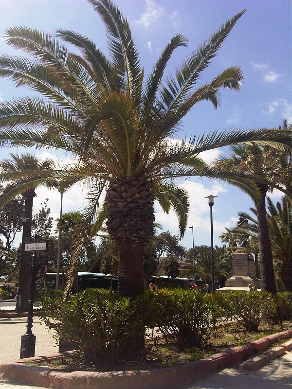 Canary Island Date Palm (Phoenix canariensis) in Republic of Malta.